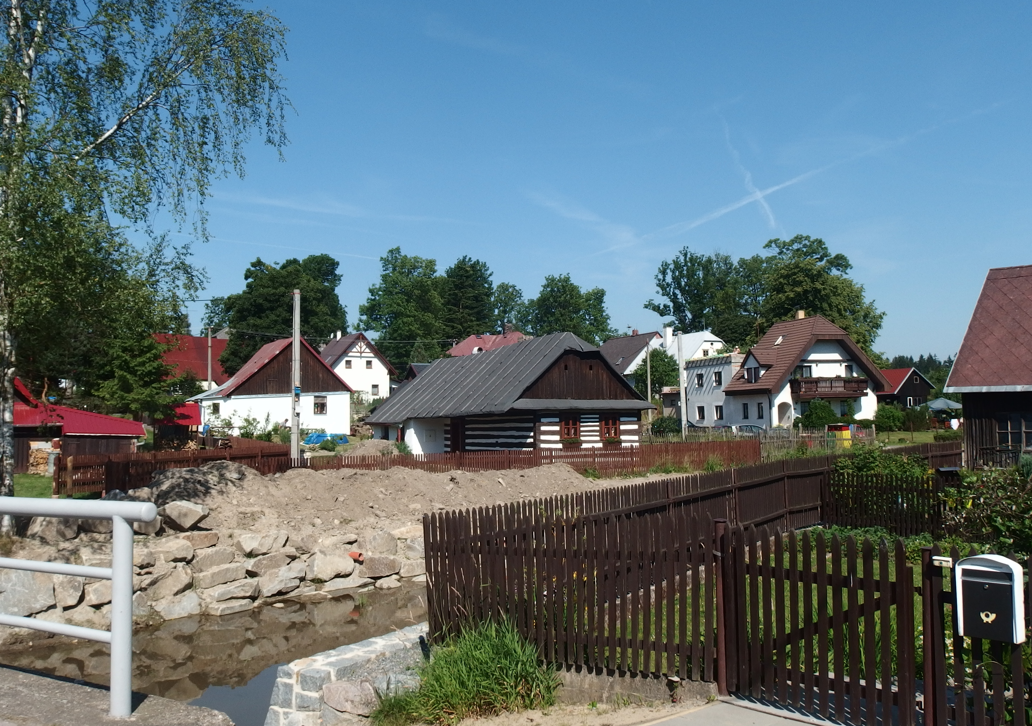 Vortová, Chrudim District, Czech Republic.